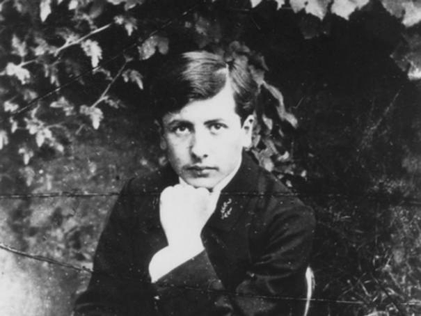 Alain-Fournier, in 1905, at Chapelle d'Angillon.